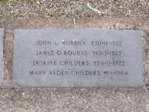 Erskine Childers' grave in Glasnevin cemetery, Dublin.